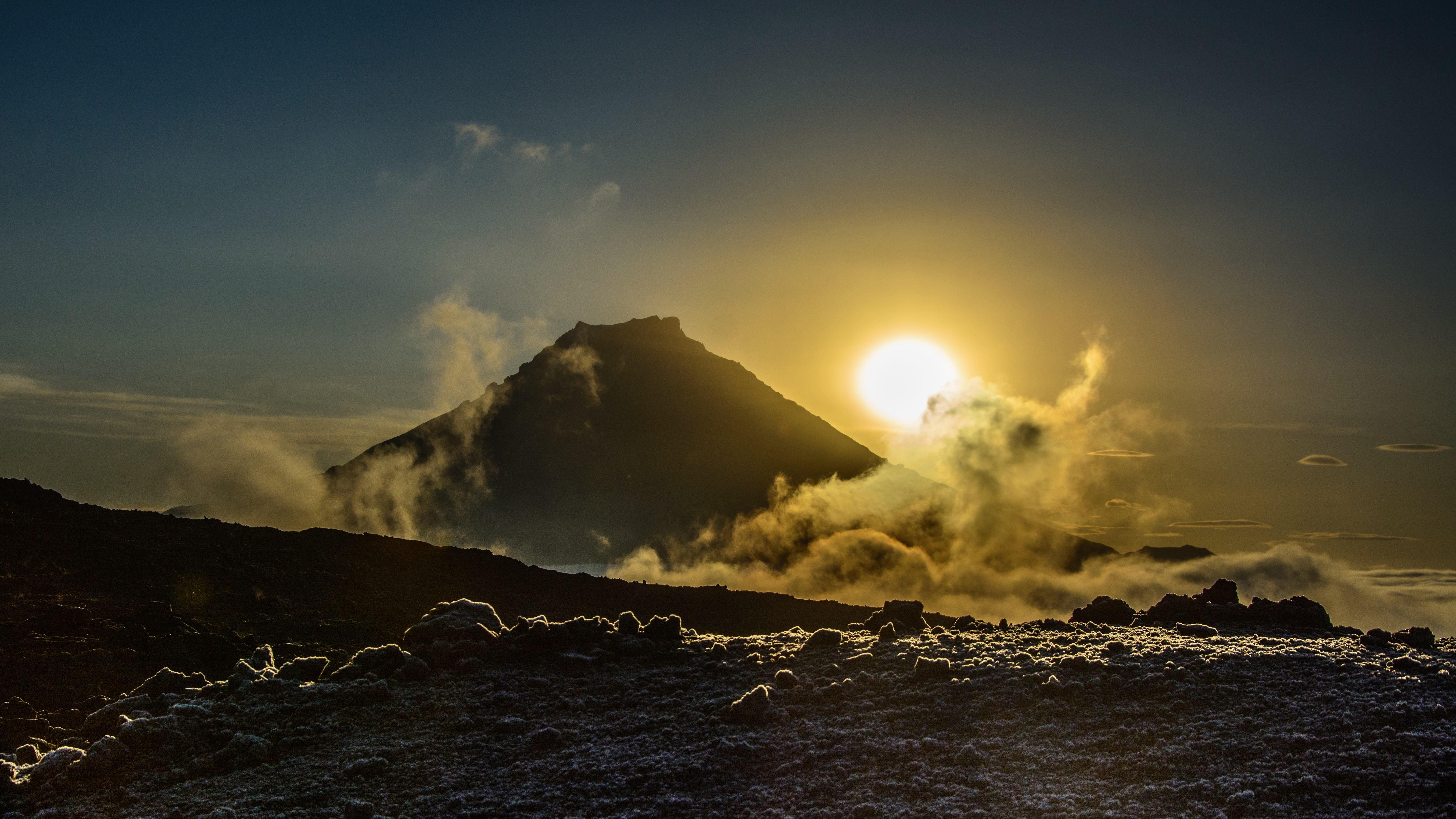 This picture was taken in the early morning, during our hike to the crater of volcano Plosky Tolbachik. It shows the rising sun behind volcano Udina in the background, interesting cloud formations in the mid-ground and the frost covered ground of volcano Tolbachik in the foreground.